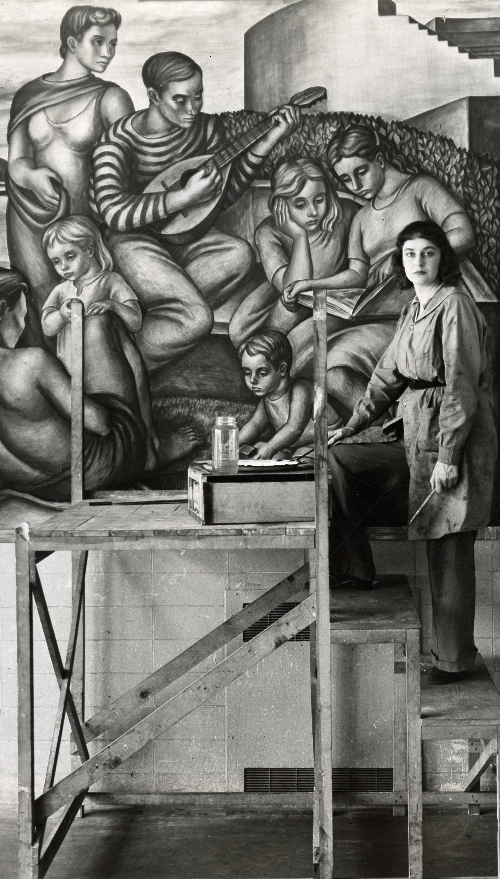 Greenwood standing in front of mural painted for the WPA Federal Art Project.Identification on verso (handwritten and stamped): Art Project W.P.A.; Photographic Division; 110 King Street; New York City Negative No.: P4128-4; date: 6-4-40; Photographer: Shalat; Artist: Greenwood; Medium: Mural; Location: Red Hook Housing.